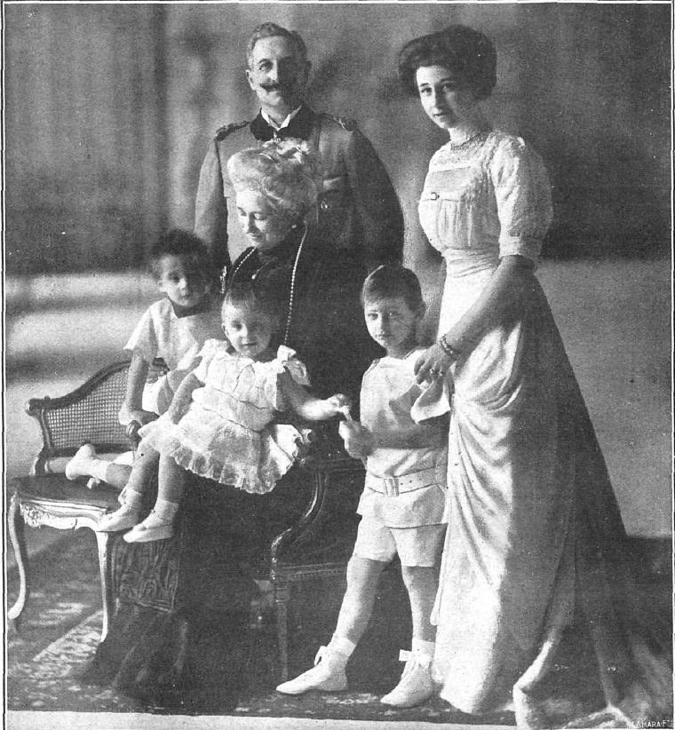 German emperor Wilhelm II whti his daughter Viktoria Louise and his grandchildren, 1918.